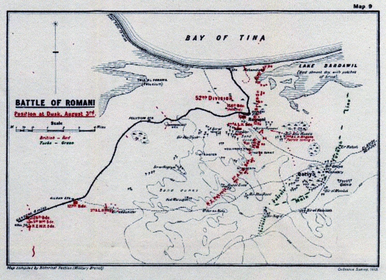 Map 9 Romani at dusk 3 August 1916.